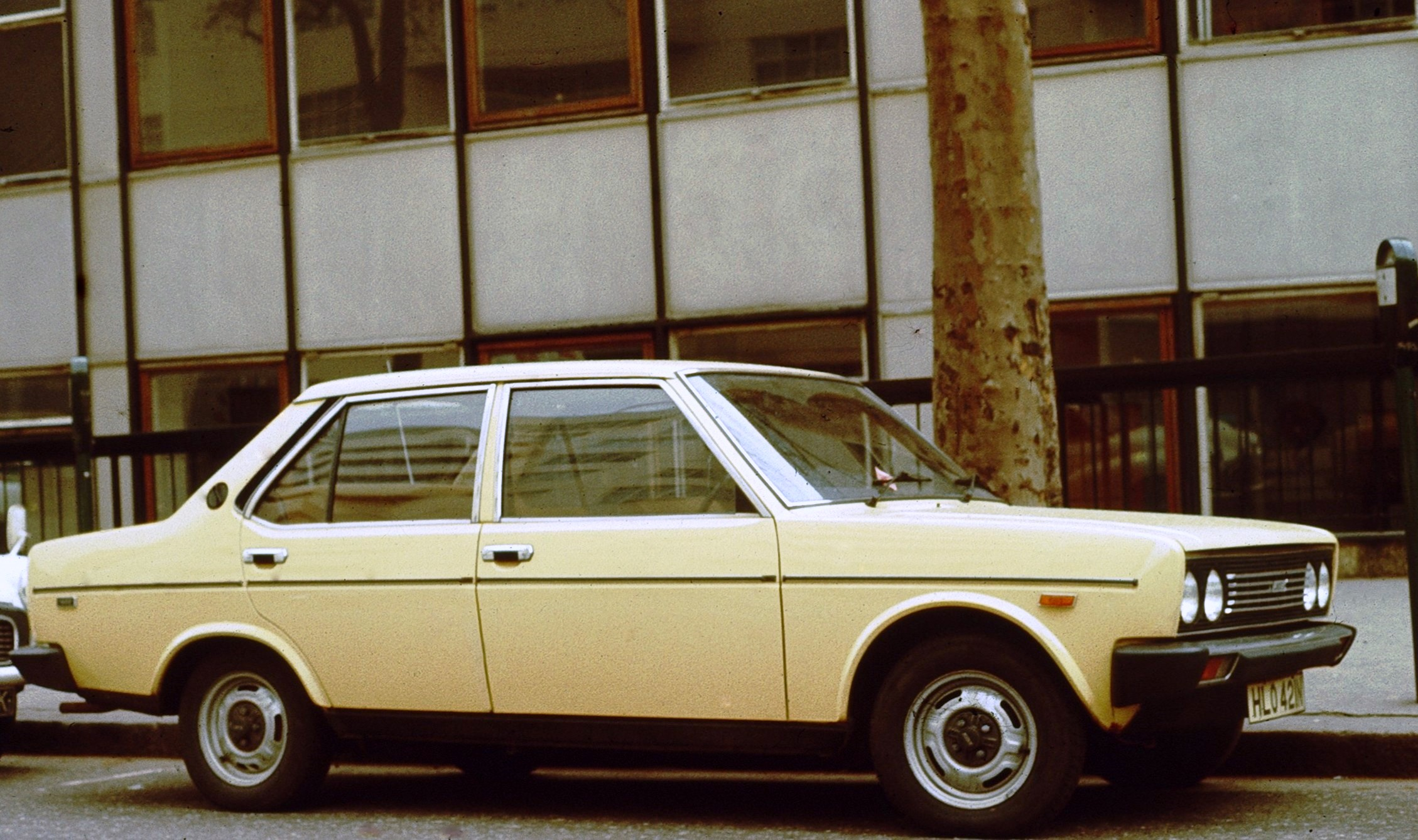 Fiat 131 earliest (1974) version DVLA data: First registered February 1975 Manufactured 1975 Cylinder capacity 1592 cc Not taxed for UK road use since June 1984